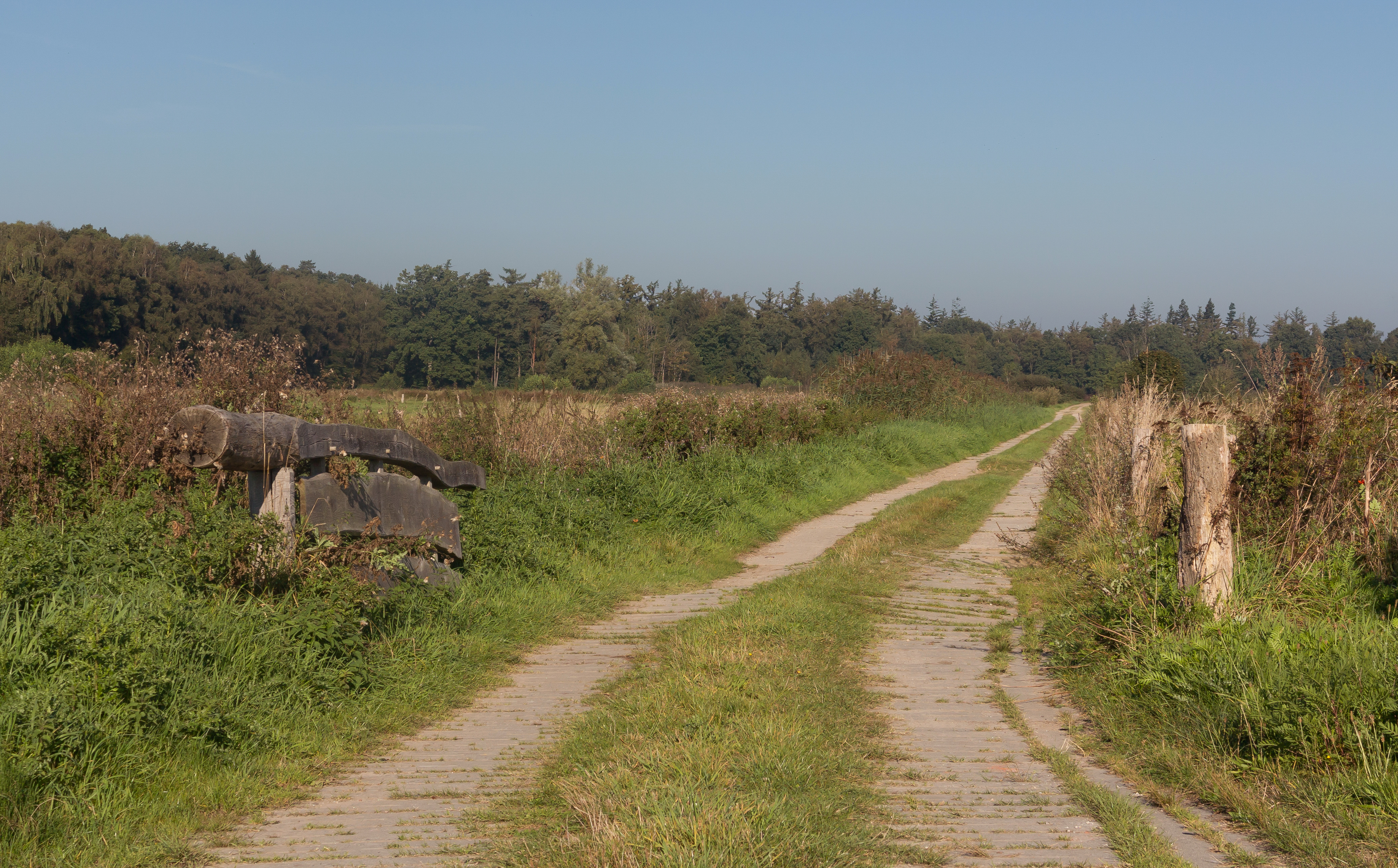 between Denekamp and Oldenzaal, country road for agricultural vehicles